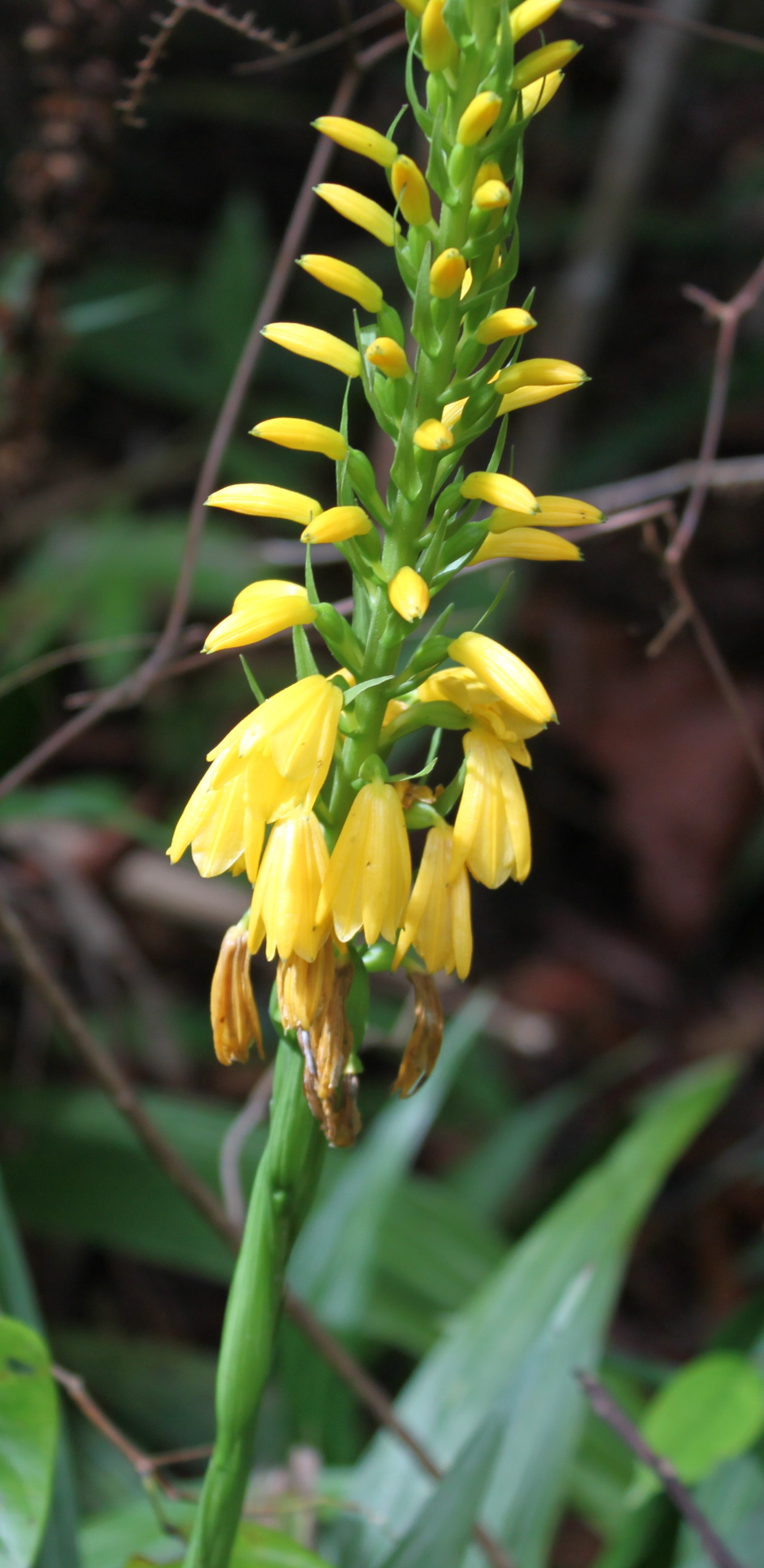 Neuwiedia veratrifolia – Mt Serapi/Mt Kayan, Sarawak, Malaysian Borneo